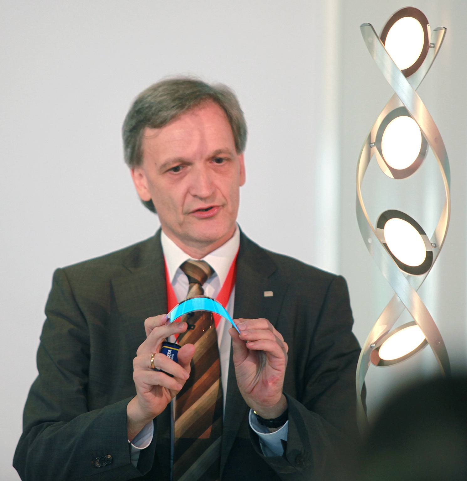 Demonstration of a batterie driven flexible OLED lamp, shown by Thomas Geelhaar CTO of Merck KGaA, during a press conference prior the opening ceremony of Merck's Material Research Center in Darmstadt (Germany). At the right the white OLED luminaire Prioled made by OSRAM.